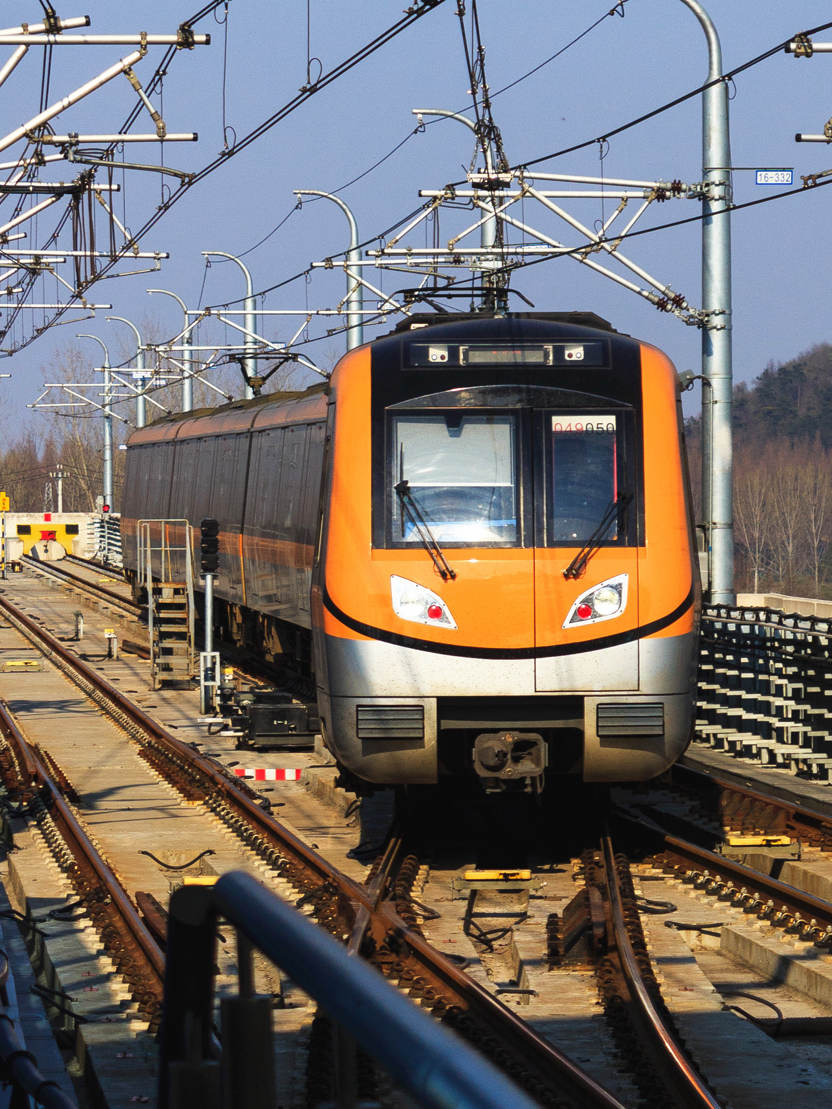 A Nanjing Metro Line S8 train(No.049050) approaching Jinniuhu Station.